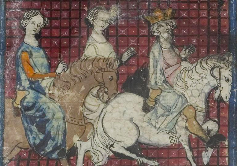 Fol.31r Chilperic I (543-97) and Fredegonde on Horseback, from the Grandes Chroniques de France, 1375-79 (vellum). Bibliotheque Municipale, Castres, France.